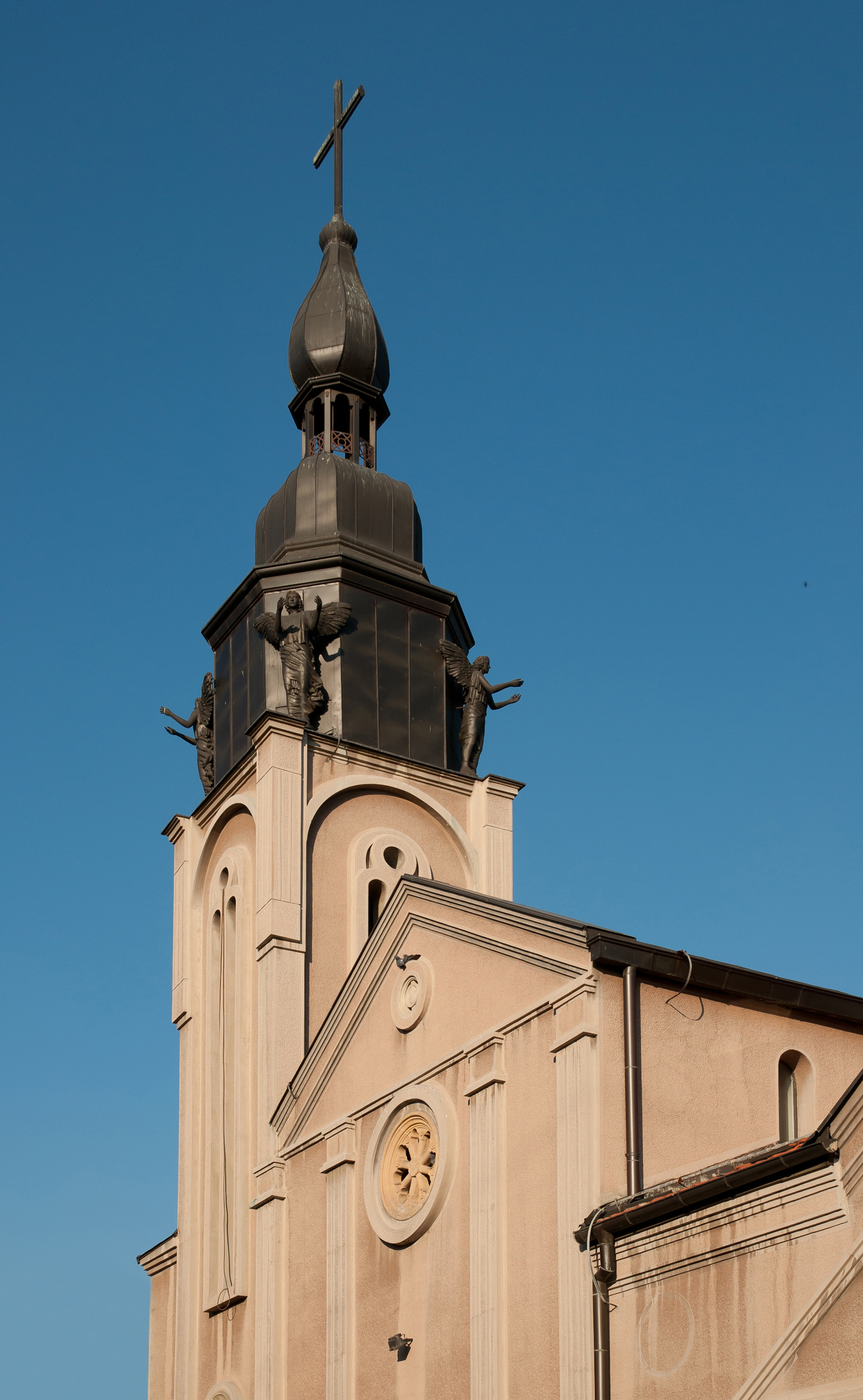 The Catholic church of the Sacred Heart in the city of Niš, Serbia.